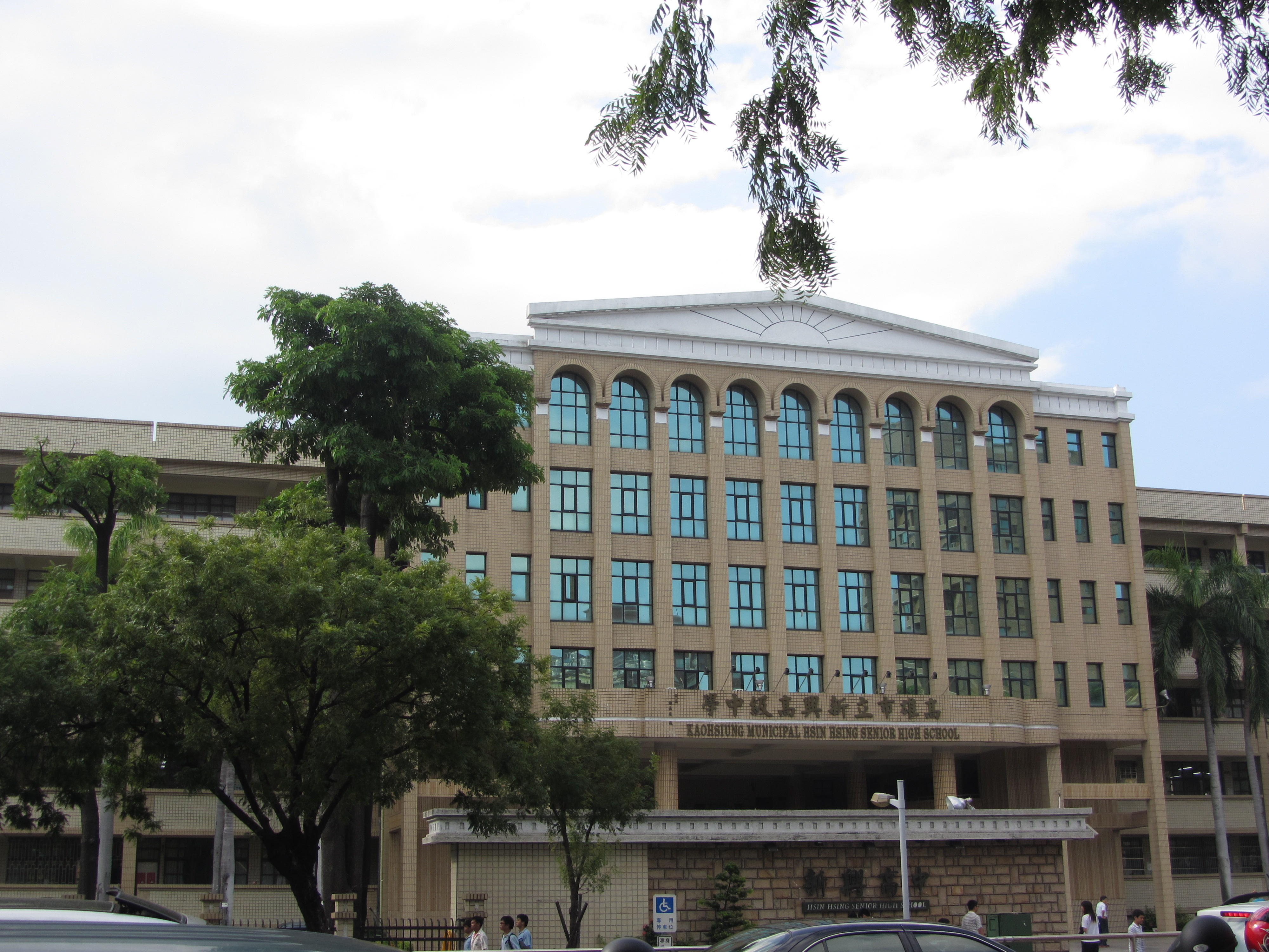 Kaohsiung Municipal Sinsing Senior High School